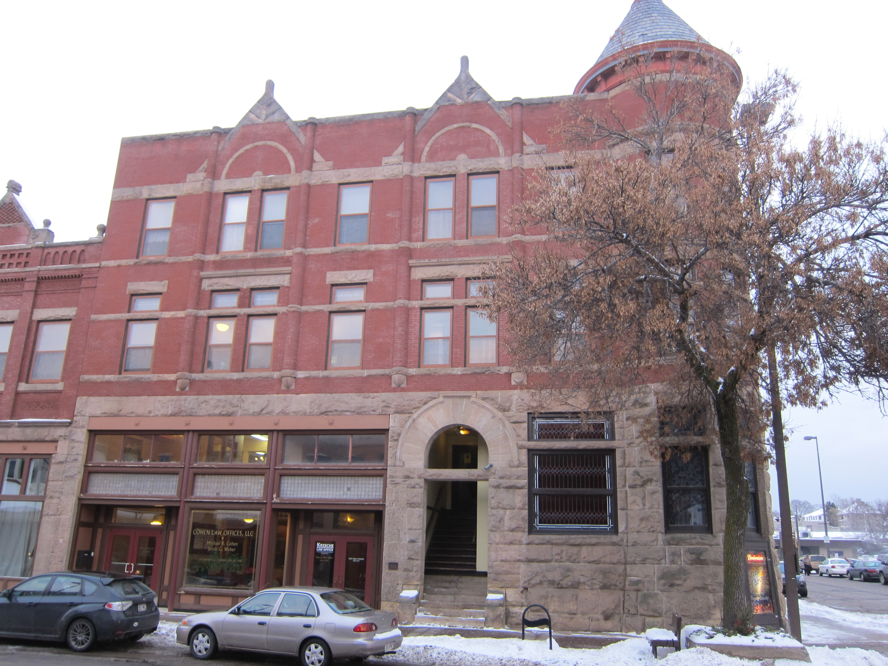 Confluence Commercial Historic District in Eau Claire, WI, listed on the National Register of Historic Places.